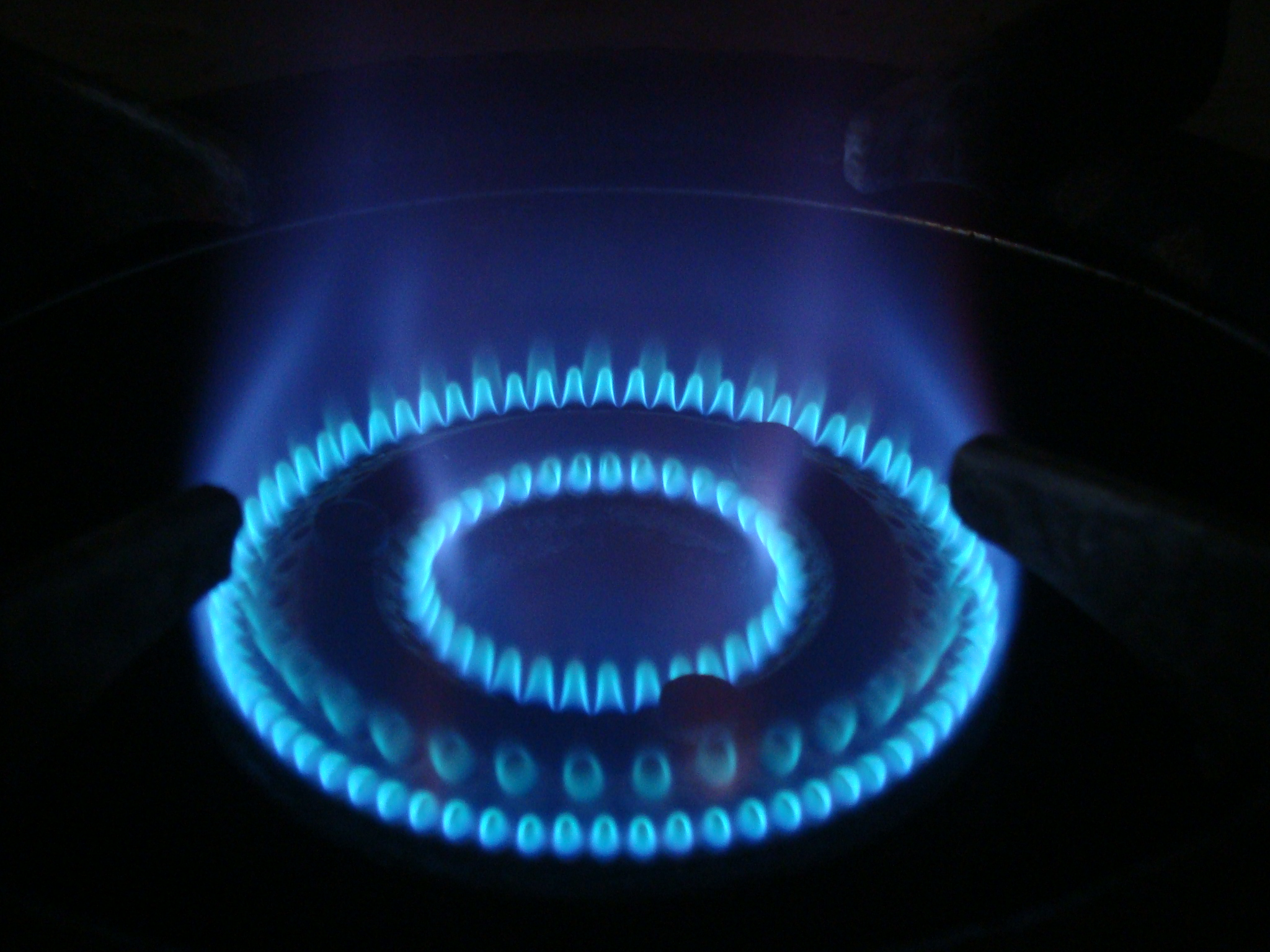 Liquid Petroleum Gas flame